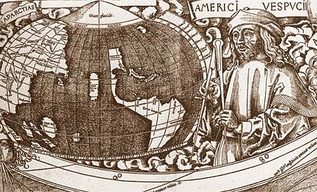 Amerigo Vespucci – Illustration in the map by Martin Waldseemüller, 1507